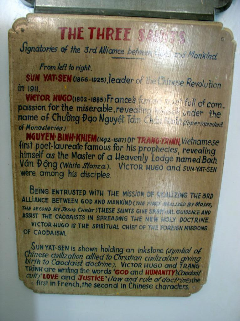 A stella inside Tay Ninh Holy See describing the three saints of Cao Dai.